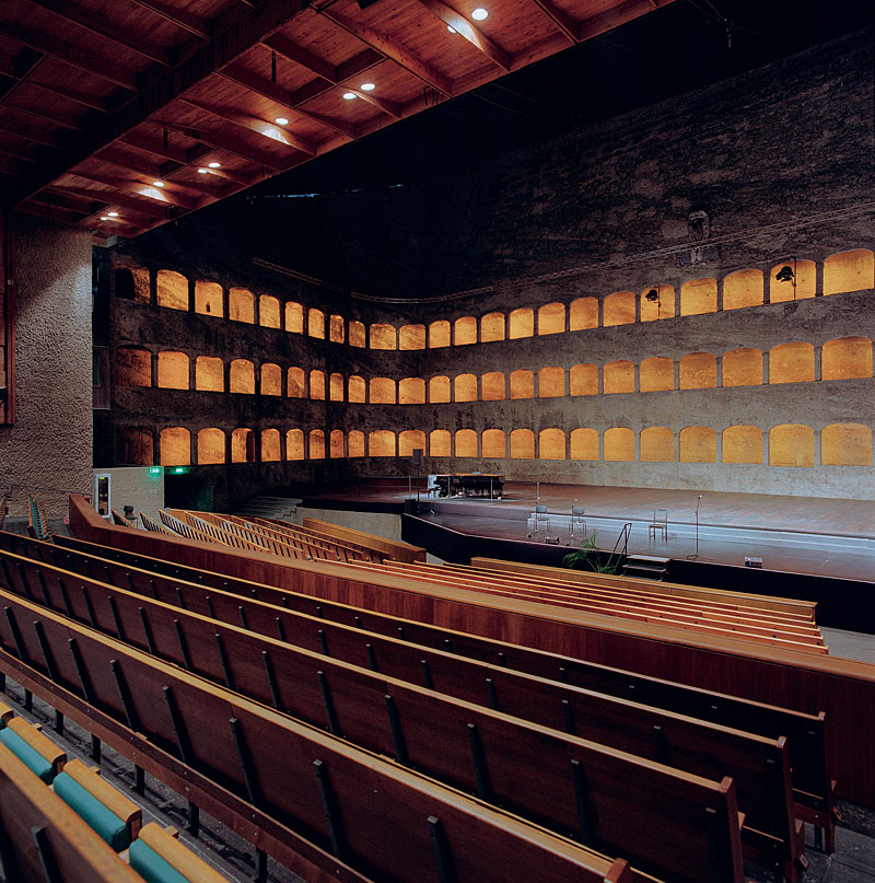 Felsenreitschule in Salzburg, Austria